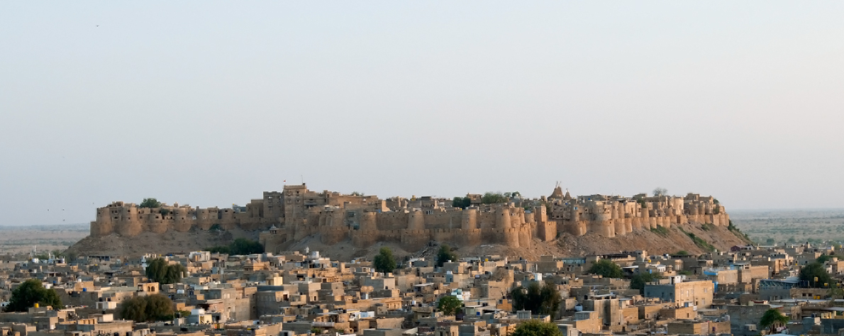 Jaisalmer Fort in Rajasthan is a unique monument. It is not only one of the oldest forts in Rajasthan (1156) after Chttorgarh, but it is also the second largest. Built almost entirely out of the locally available yellow sand stone, the fort rises 250 feet high on formation of three hills, Trikuta, formed almost totally of mud. The Golden Fort (Sonar Quila) is an imposing sight from miles around and it shines like a golden tiara atop the lofty hill when early morning sunlight and moonlight strike it. Another unique feature of this fort is that it is the only ‘Living Fort’ in the country. The fort is host to over 1000 families whose forefathers have been settled there by the Kings (Maharawals of the Bhati clan of Rajputs) some eight Centuries ago and continue to live in the ancestral houses on the original streets and Paras. A large percentage of these houses also double as hotels, restaurants and antique shops during the tourist season.